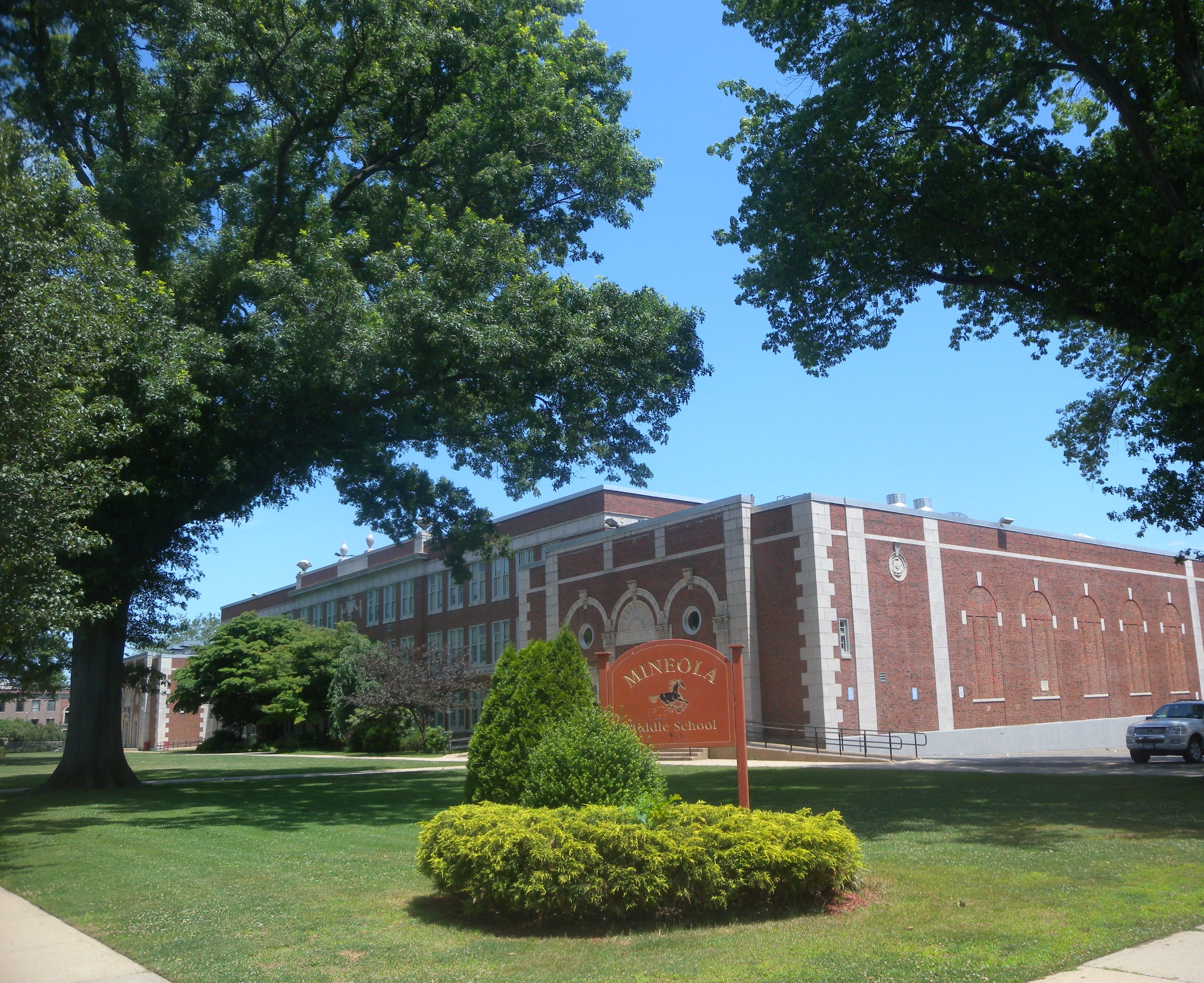 Looking northeast at school, on a sunny midday.